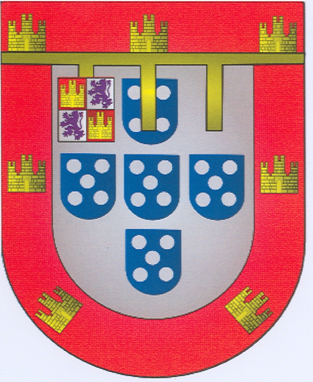 Coat of Arms of Infante Louis, 5th Duke of Beja